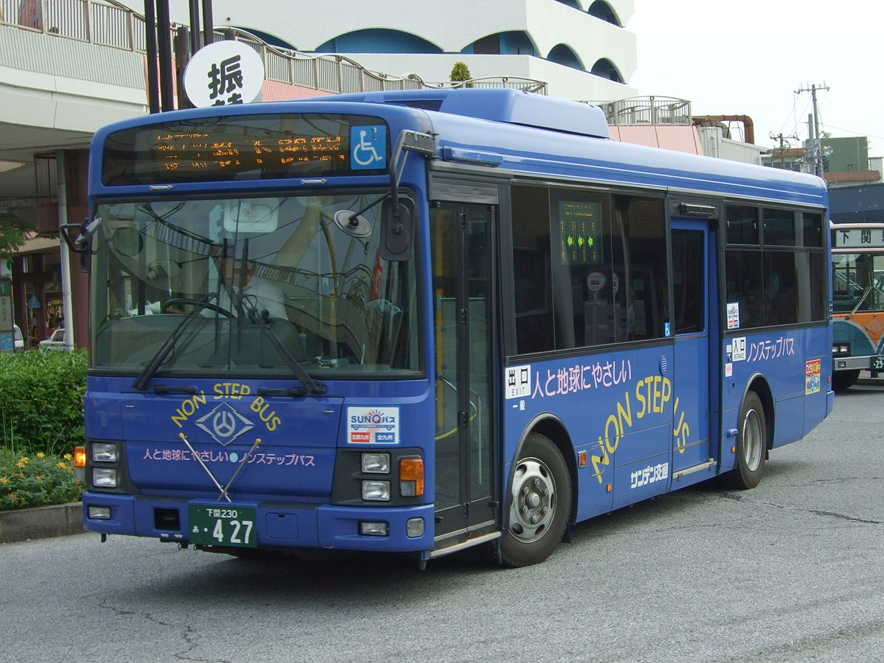 Company:Sanden Kotsu Use:transit bus Car license:下関230 あ・427 Chassis manufacturer:Isuzu Motors Coachbuilder: Location:in Shimonoseki City, Yamaguchi, Japan.